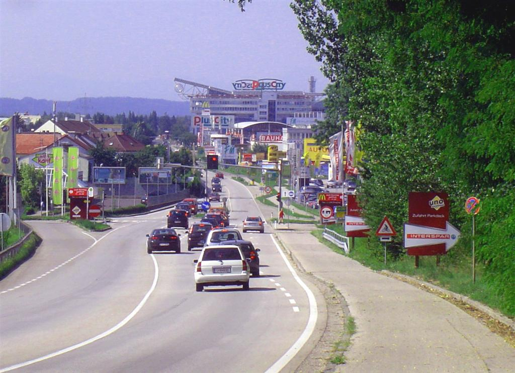 Kremstal Street B 139 near UNO Shopping, looking south west, towards Plus City; Upper Austria